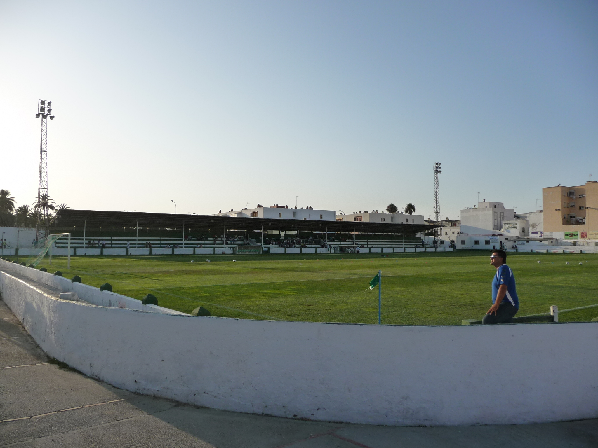 Sancho Davila Stadium, in Puerto Real (Andalusia, Spain)